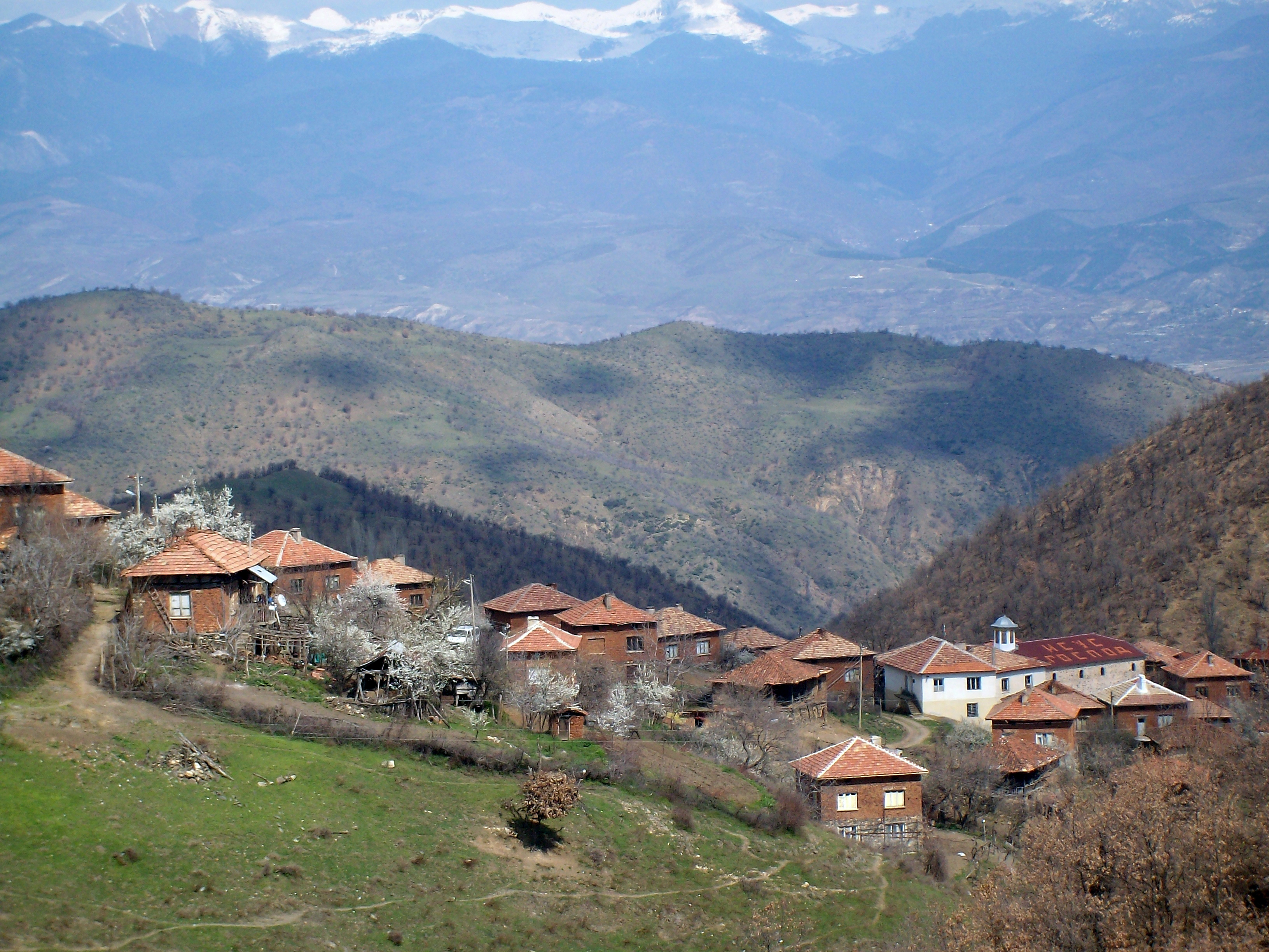 General view of the village of Bogoroditsa, Bulgaria